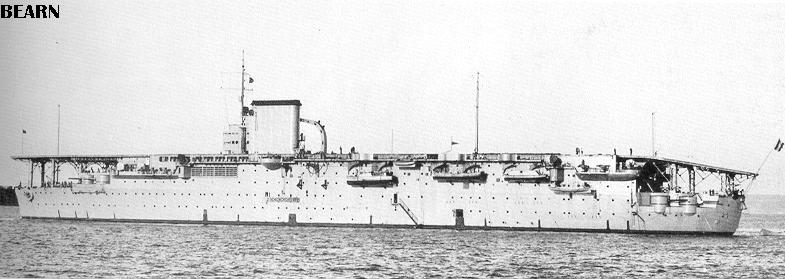 The French aircraft carrier Bearn after completion.